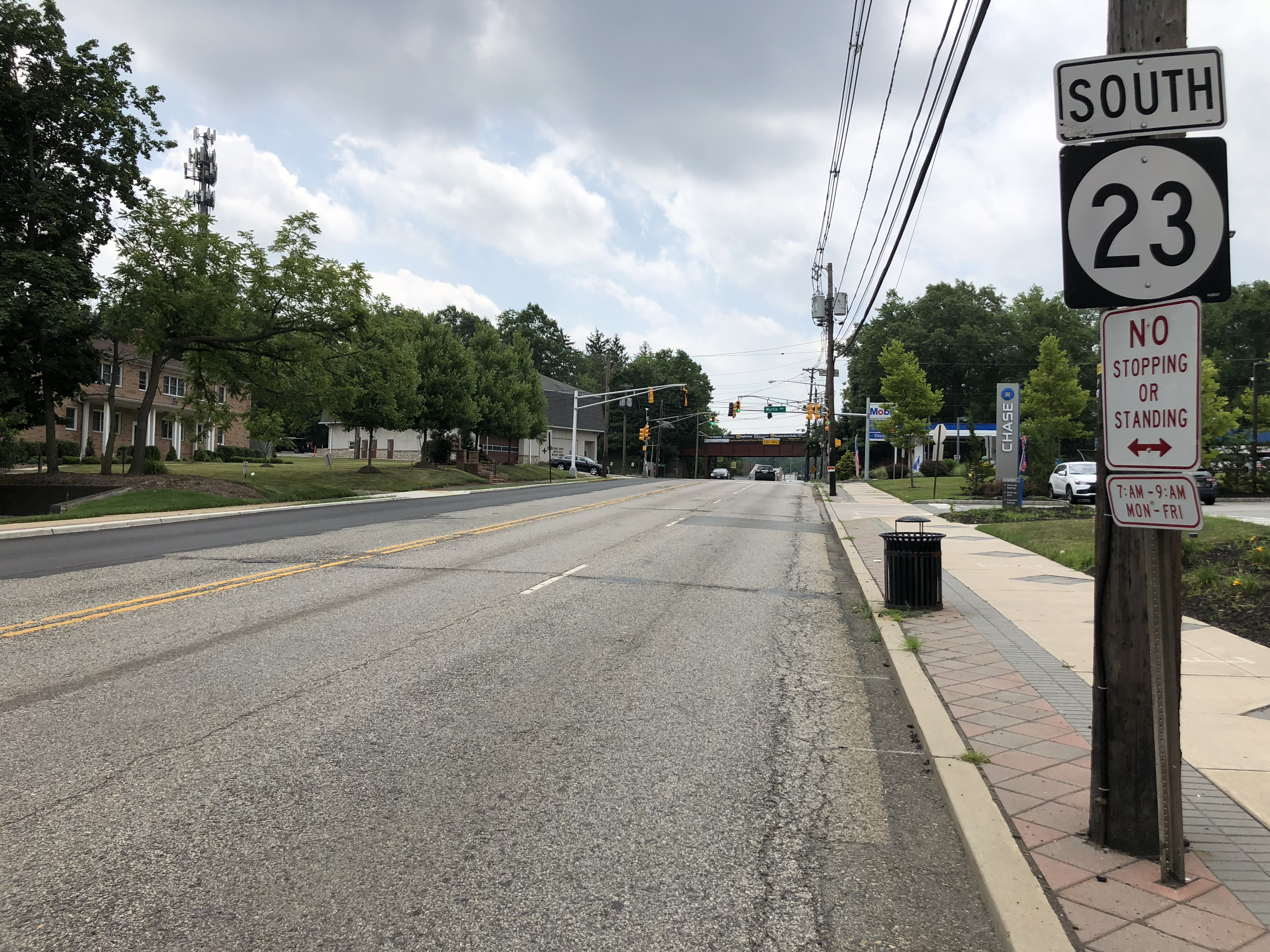 View south along New Jersey State Route 23 (Pompton Avenue) at Young Avenue in Cedar Grove Township, Essex County, New Jersey